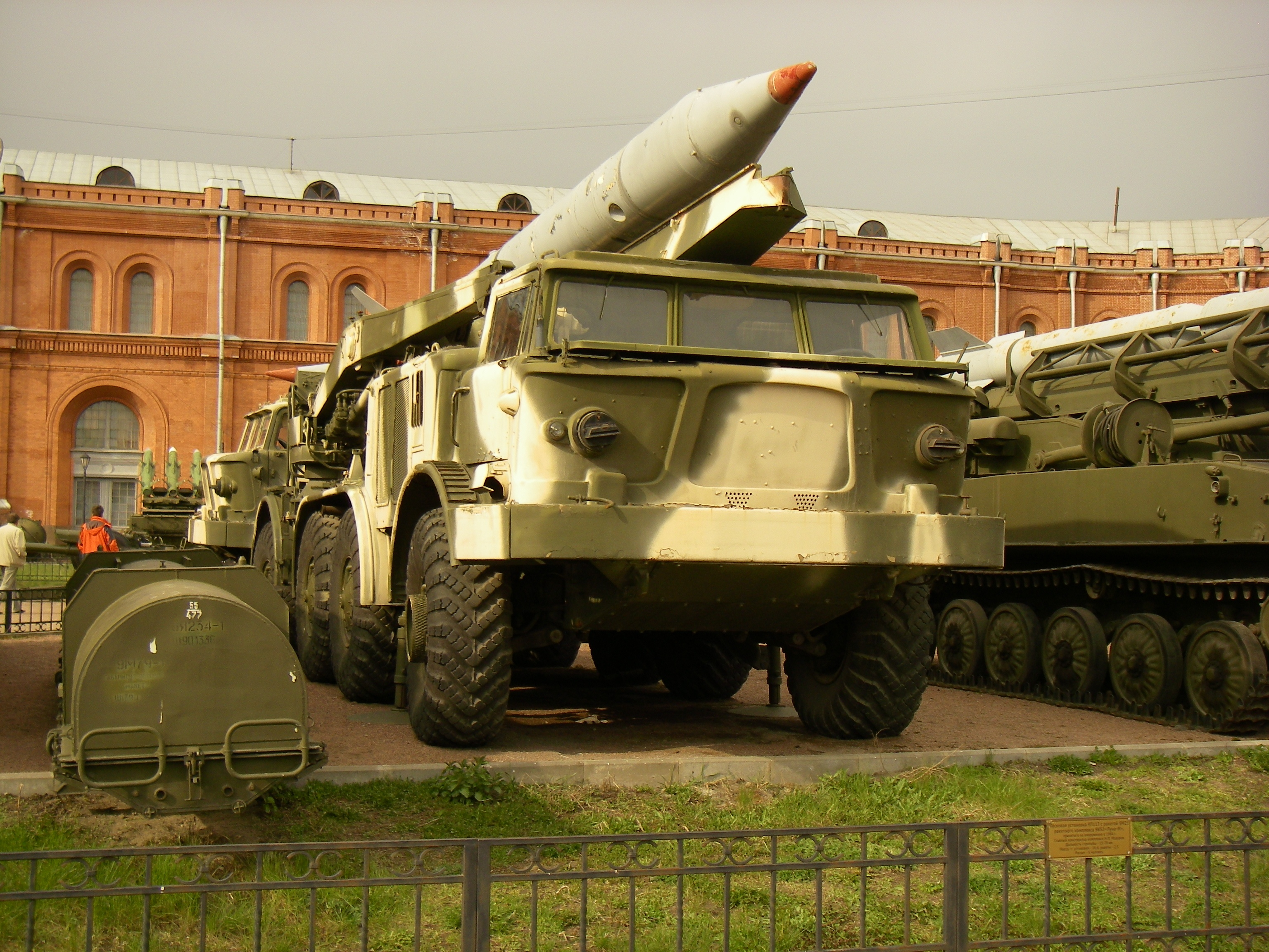 9P113 Transporter-Erector-Launcher with 9M21 rocket of 9K52 missile complex «Luna-M» in Saint-Petersburg Artillery museum